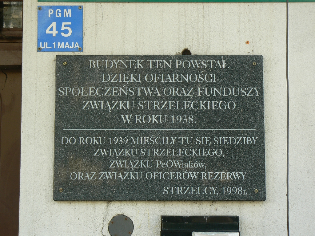 Former buidling of Riflemen's Association "Rifleman" (pl: Związek Strzelecki "Strzelec") in Bełchatów; currently: 1 Maja st., no 45 (info)